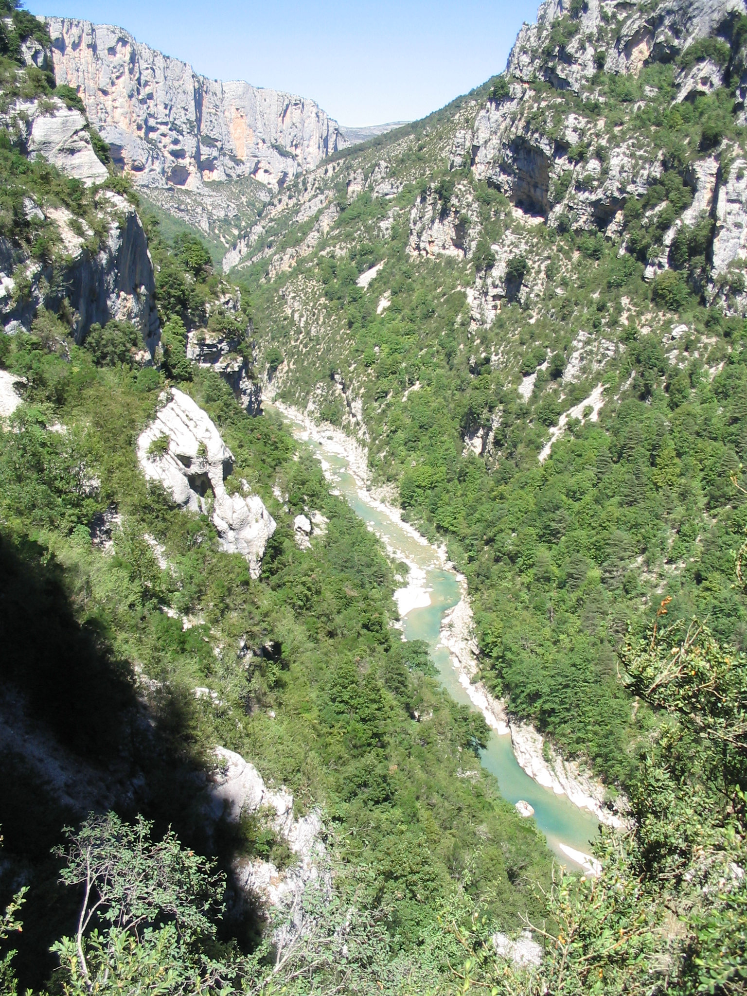 Gorges du Verdon, Provence, South France, river view from hiking trail